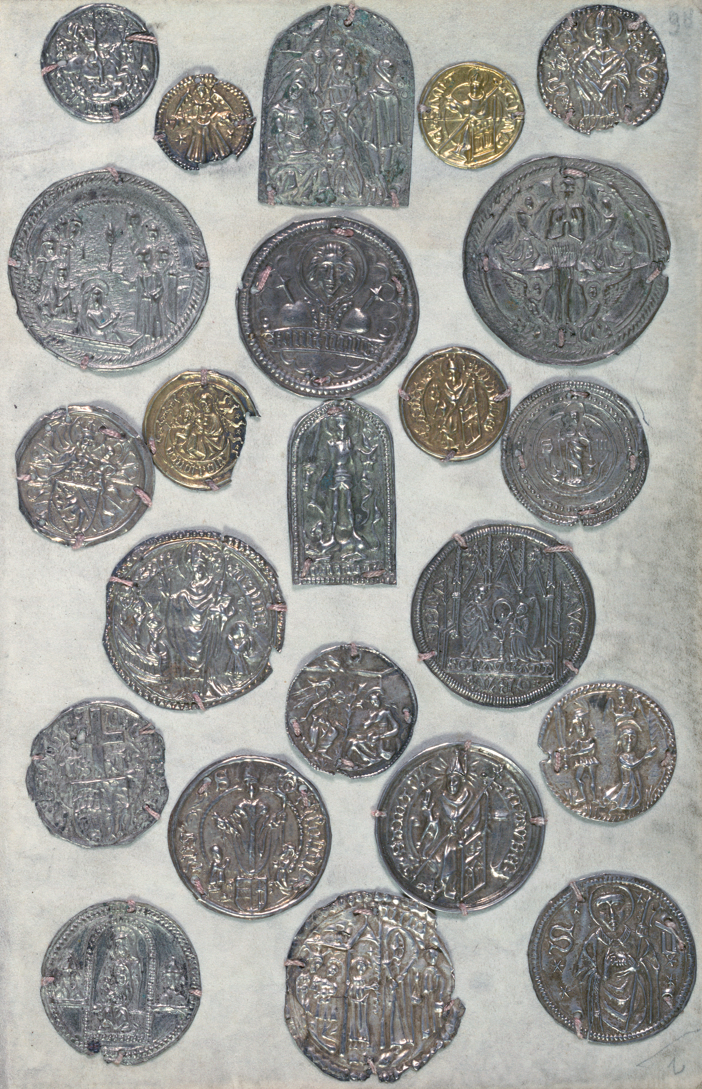 23 silver pilgrim badges in a Book of Hours from the Southern-Netherlands